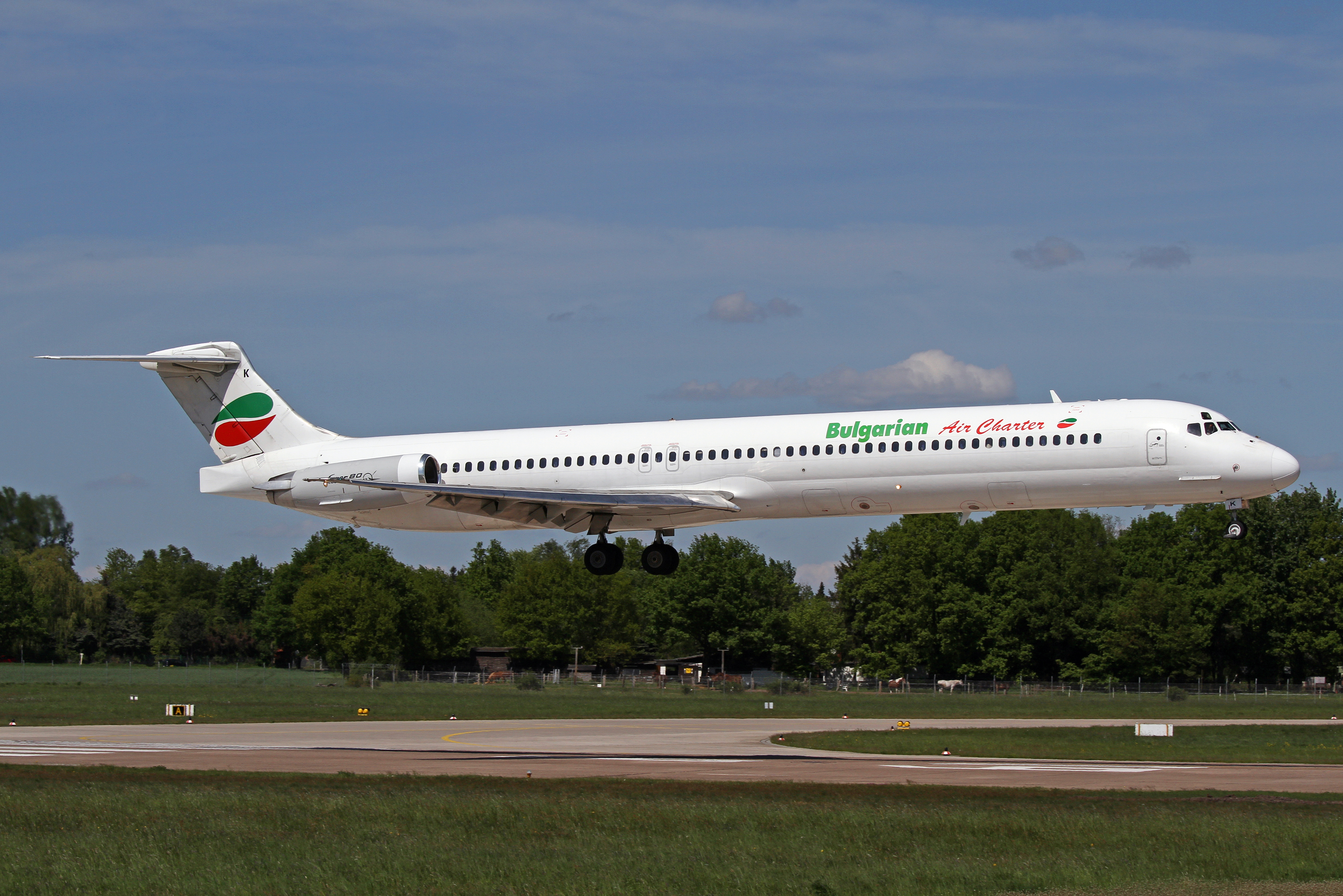 Bulgarian Air Charter aircraft at Hanover/Langenhagen International Airport